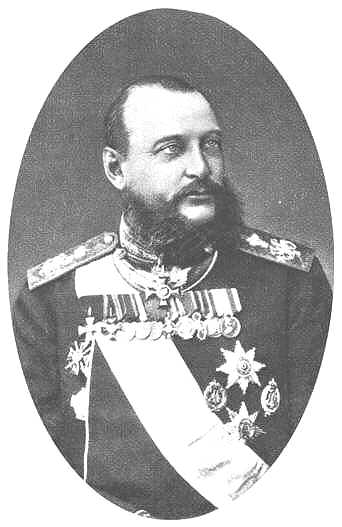 Eugen Leichtenberg (1847-1901)